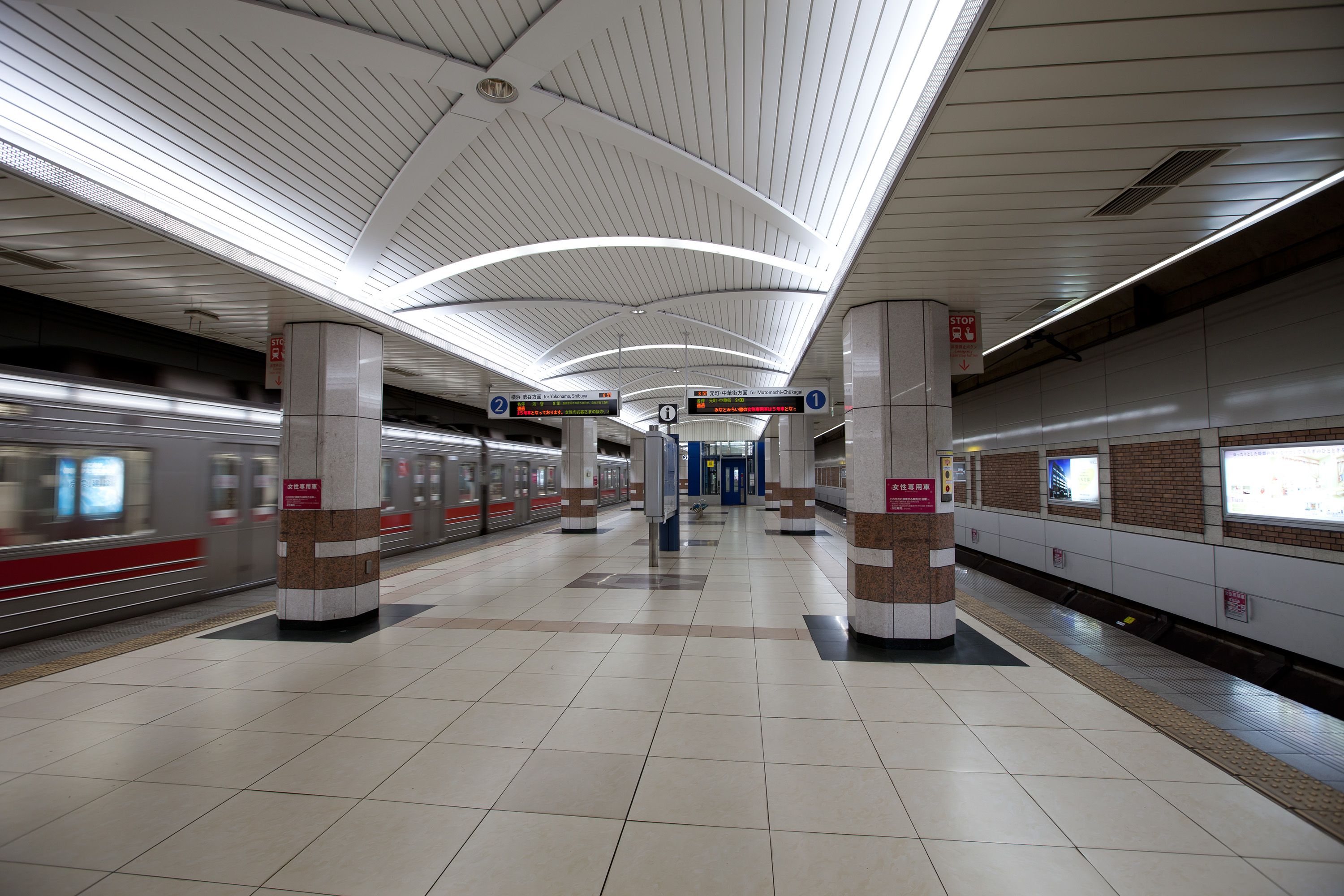 Nihon-ōdōri Station Platform